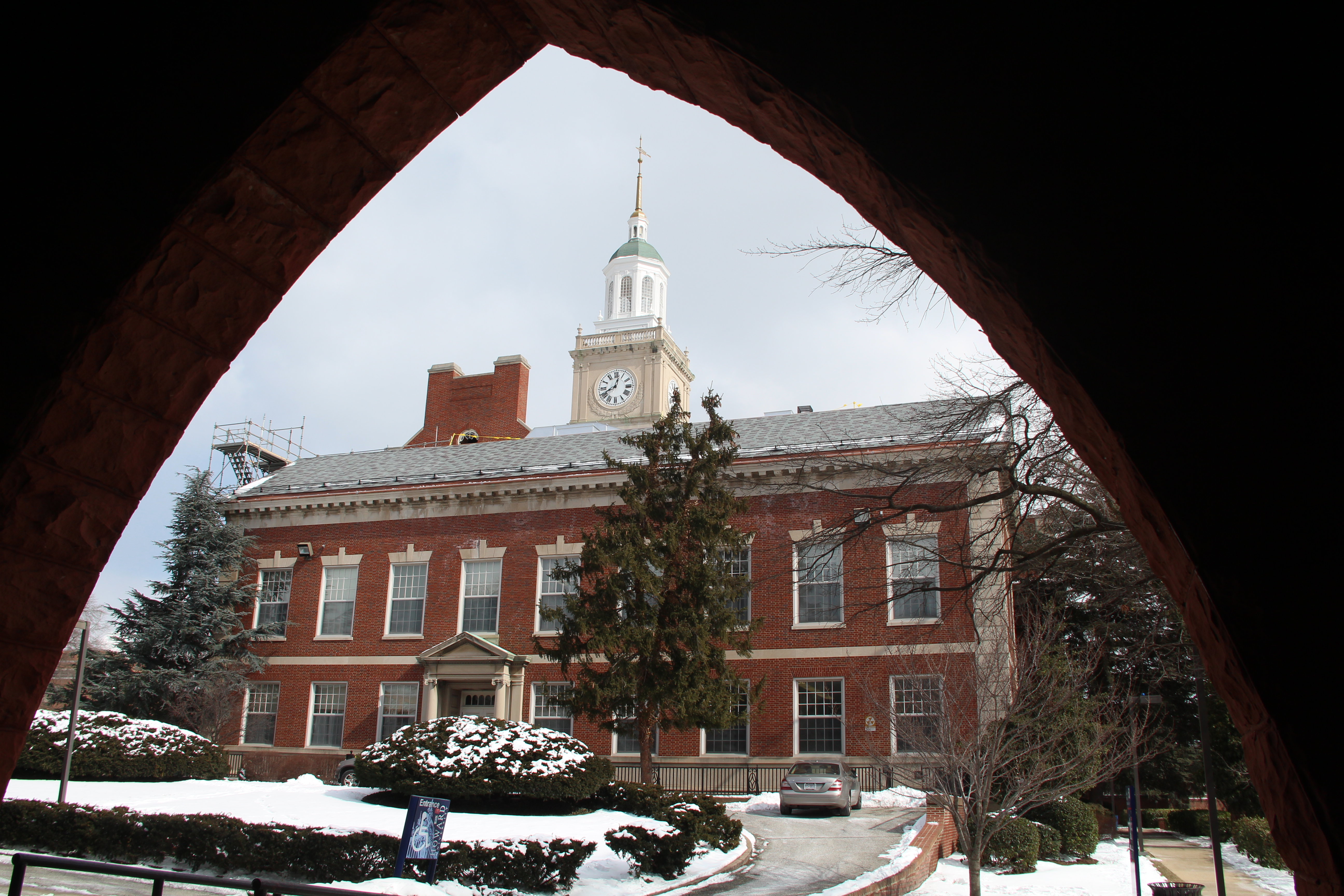 Howard University Founders Library clock tower through chapel arch